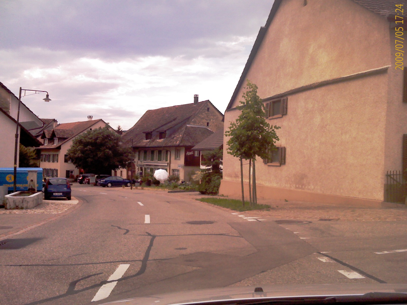 Rothenfluh, canton of Zürich, SwitzerlandEsperanto: Rothenfluh, Kantono Zuriko, Svislando